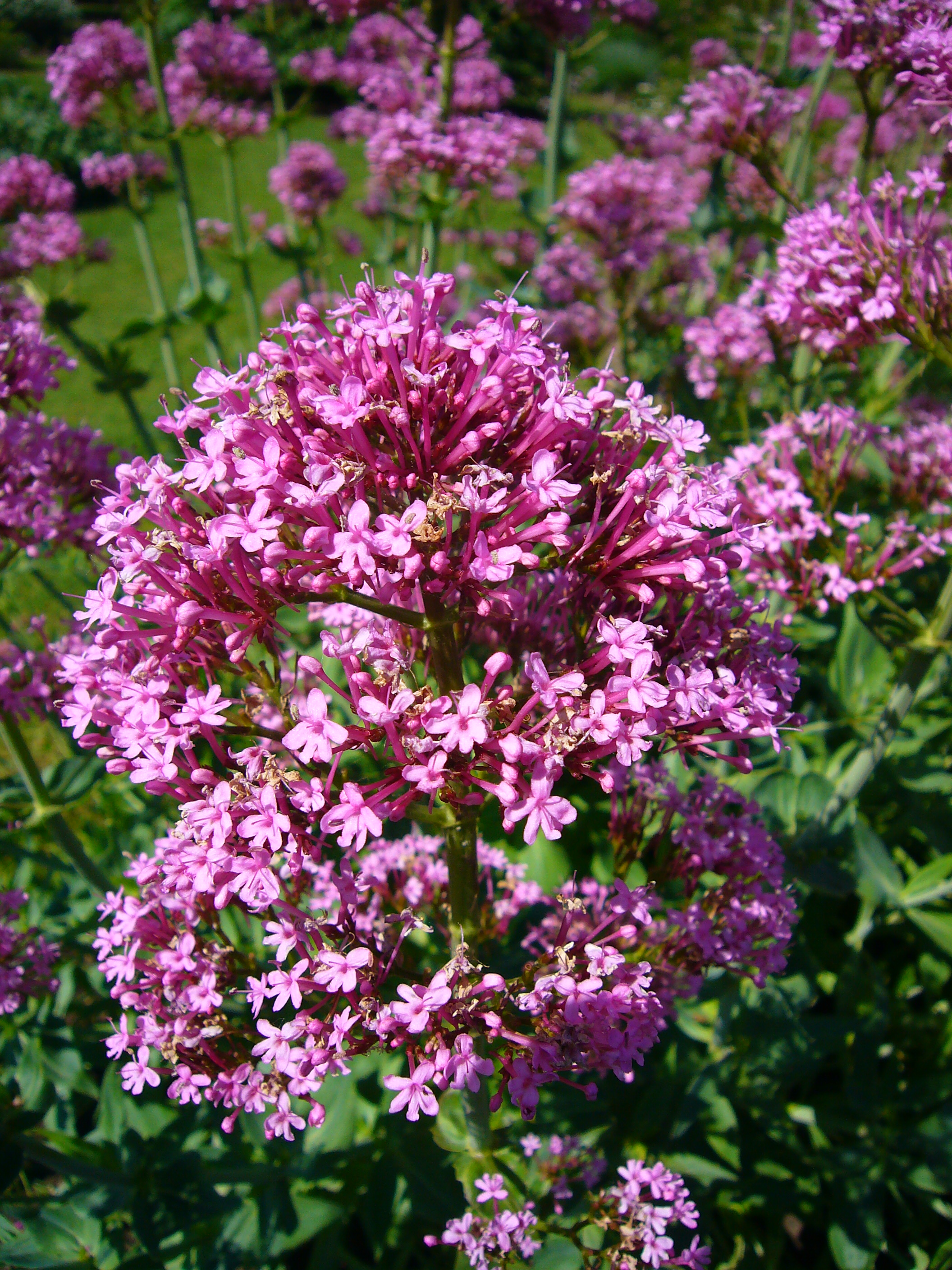 Centranthus ruber (flower) (photo taken in the Cambridge University Botanic Garden)